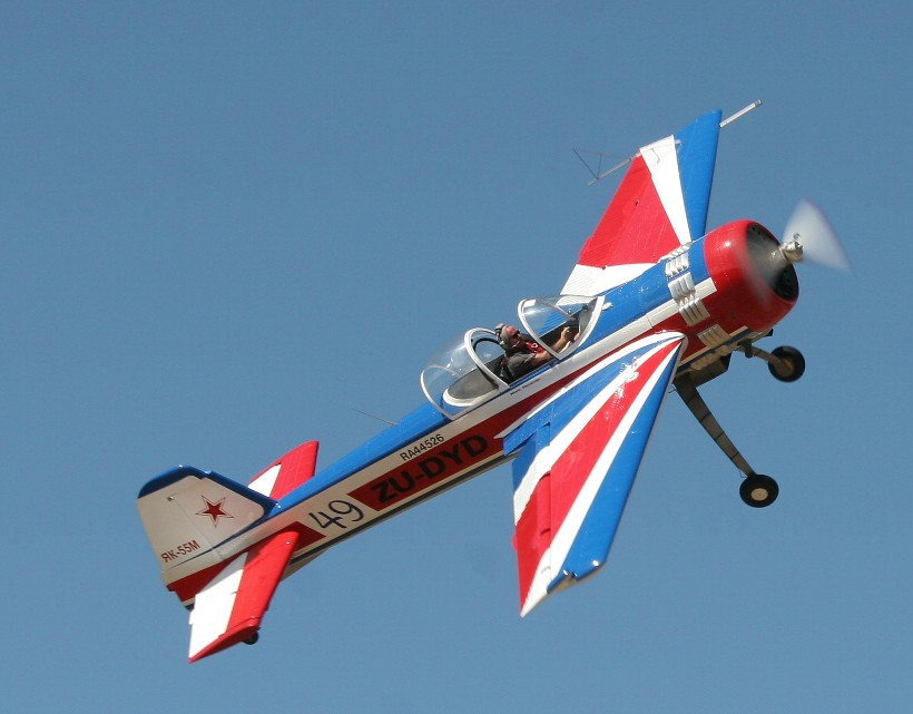 Photo by Louis Genade. Pilot Mark Hensman. (Stellenbosch, Cape Town, South Africa, January 2006)